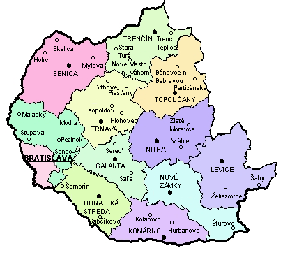 Map of Západoslovenský kraj (1960-1990, Czechoslovakia)